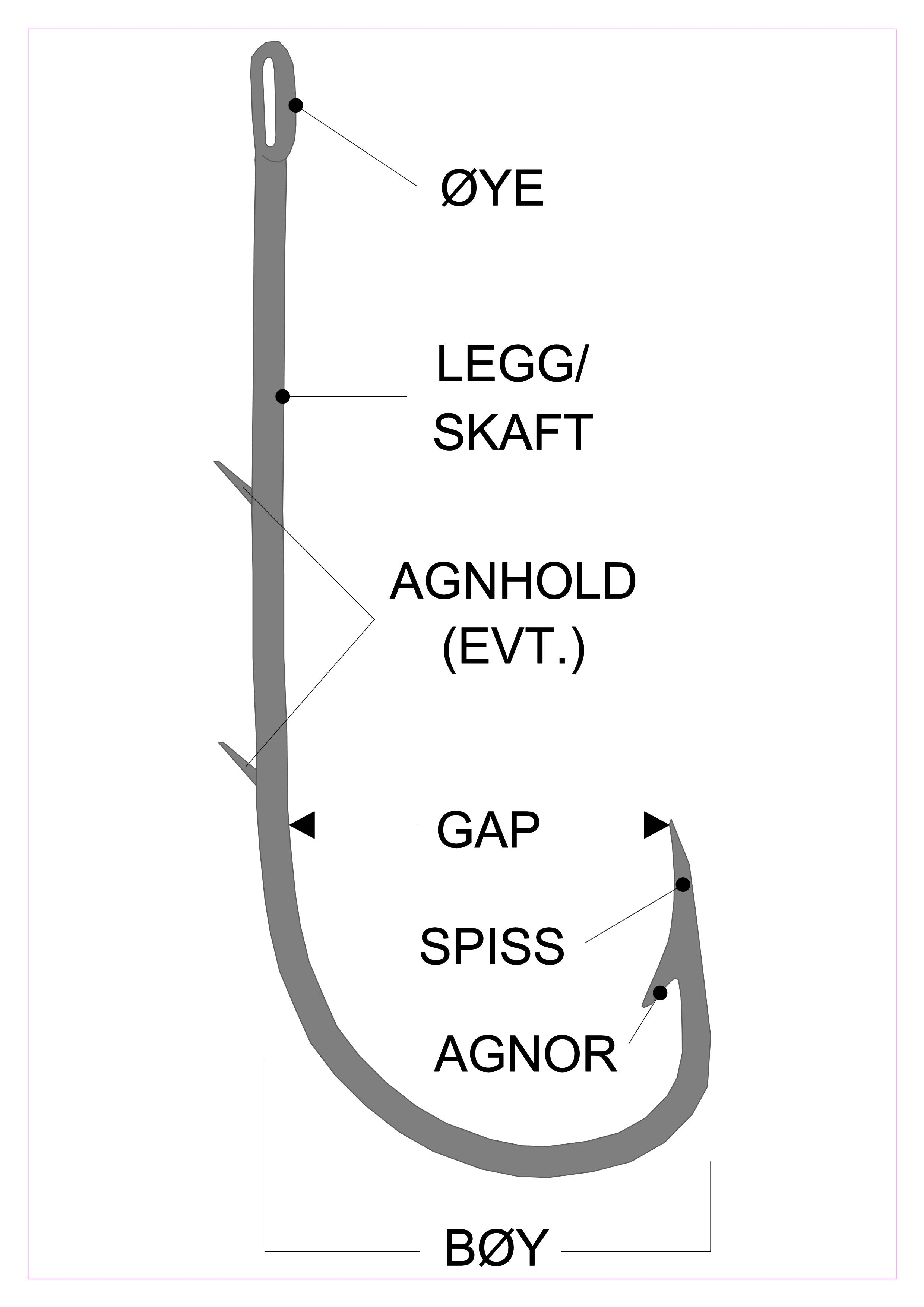 Fishng hook with Norwegian text Norsk (bokmål): Fiskekrok med norsk tekst